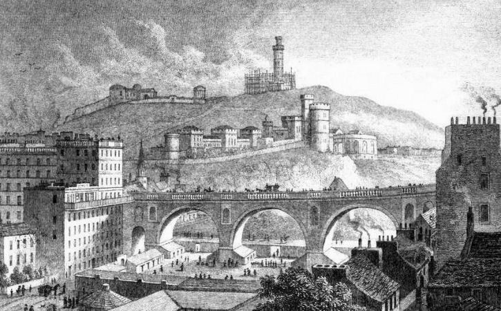 View of Edinburgh Calton Hill and the North Bridge in 1829, looking north-east